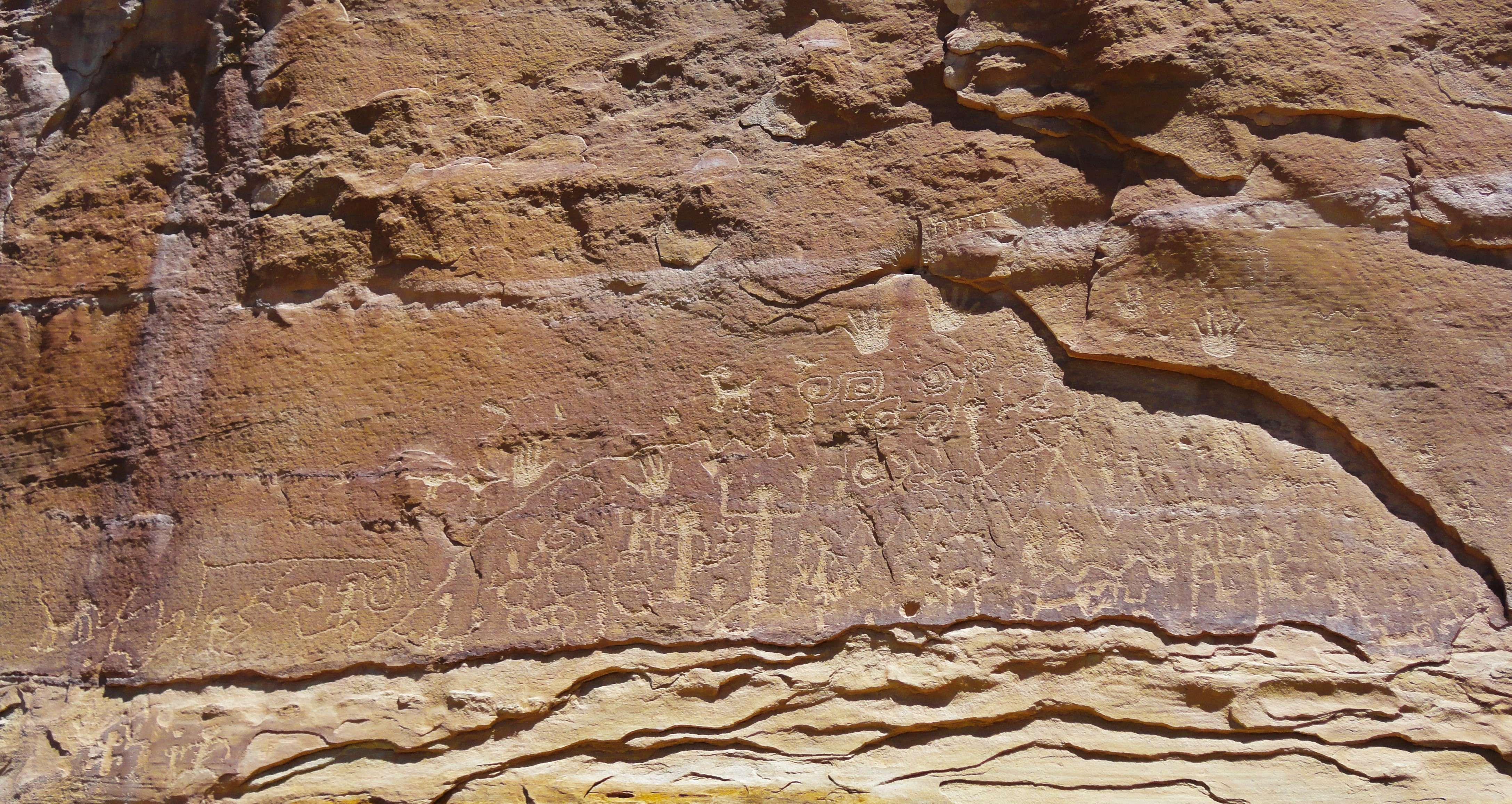 The largest panel of ancient petroglyphs in Mesa Verde National Park are accessed by way of the Petroglyph Trail, which begins near Spruce Tree House.